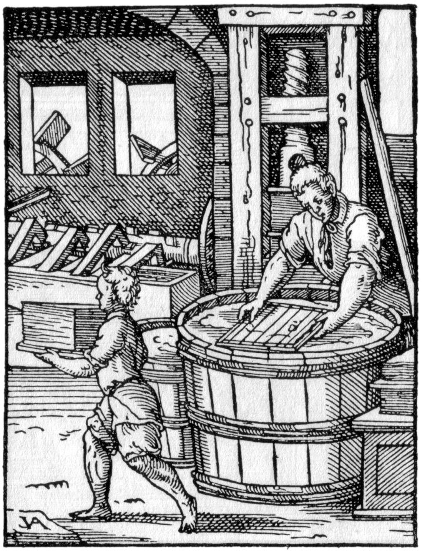 The Papermaker Woodcut from: Jost Amman (1539-1591):True Description of all Professions on Earth, exalted and humble, spiritual and worldly, all Arts, Crafts, and Trades ... (first printing Frankfurt am Main 1568; also known as the Book of Trades) In the book, the picture is accompanied by the following text by Hans Sachs: “I need rags for my mill, Where the waters drive my wheel, So that I can make a bow from felt, While pressing the water out. Then I hang it up, to let it dry, Snow-white and smooth, the way people like it.”